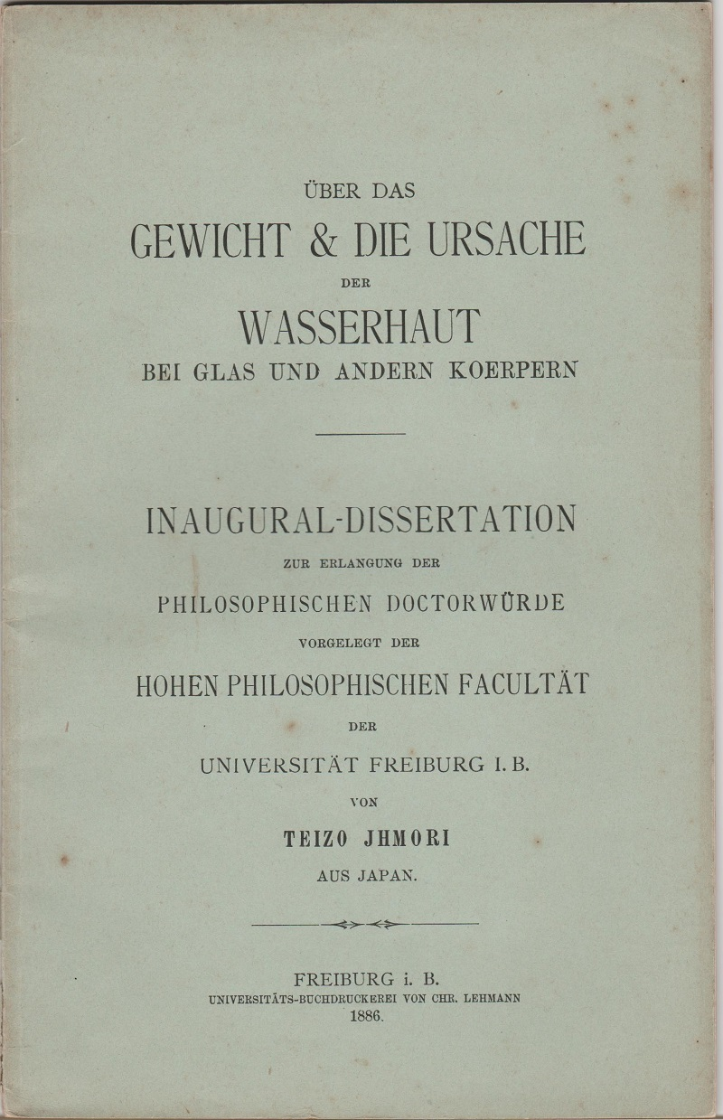 a cover of the doctoral thesis of Teizo Ihmori